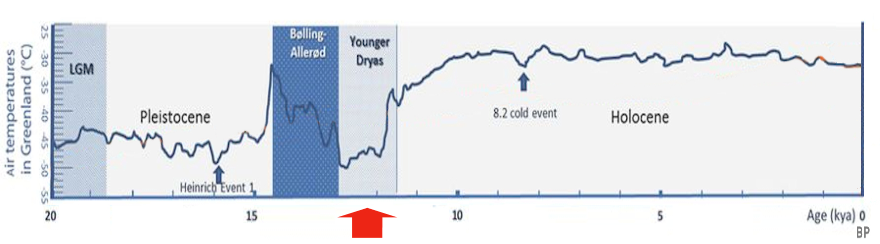 Evolution of temperature in the Post-Glacial period according to Greenland ice cores (Younger Dryas)